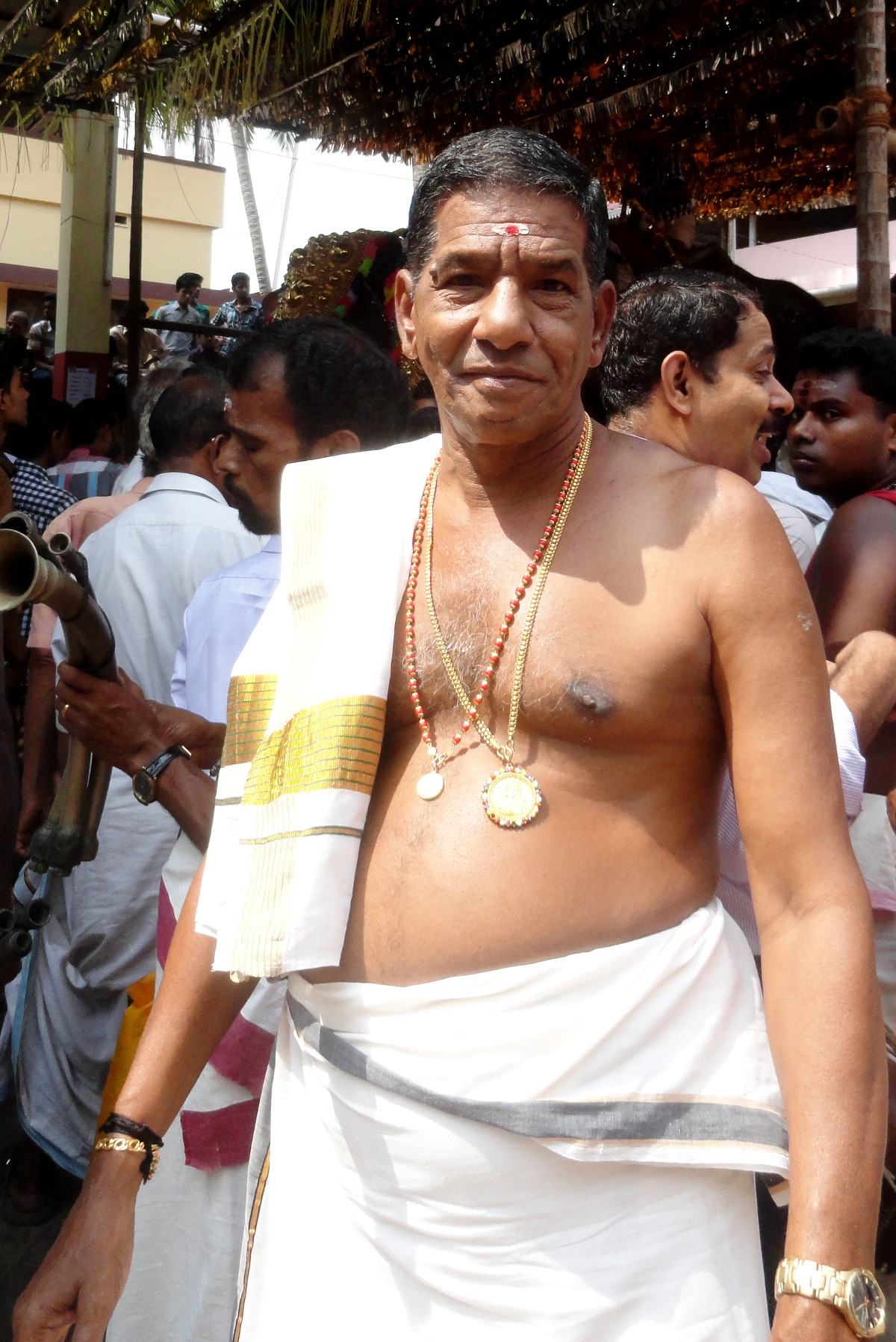 Annamanada Parameswaran Jr. better known as Kalamandalam Parameswaran is a famous Thimila Artist of Kerala, India.